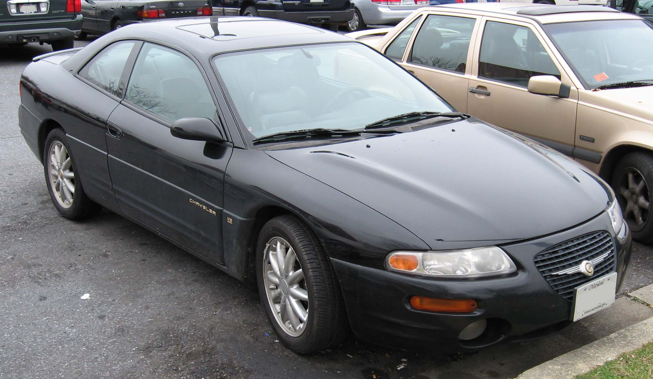 1995-2000 Chrysler Sebring coupe photographed in USA.